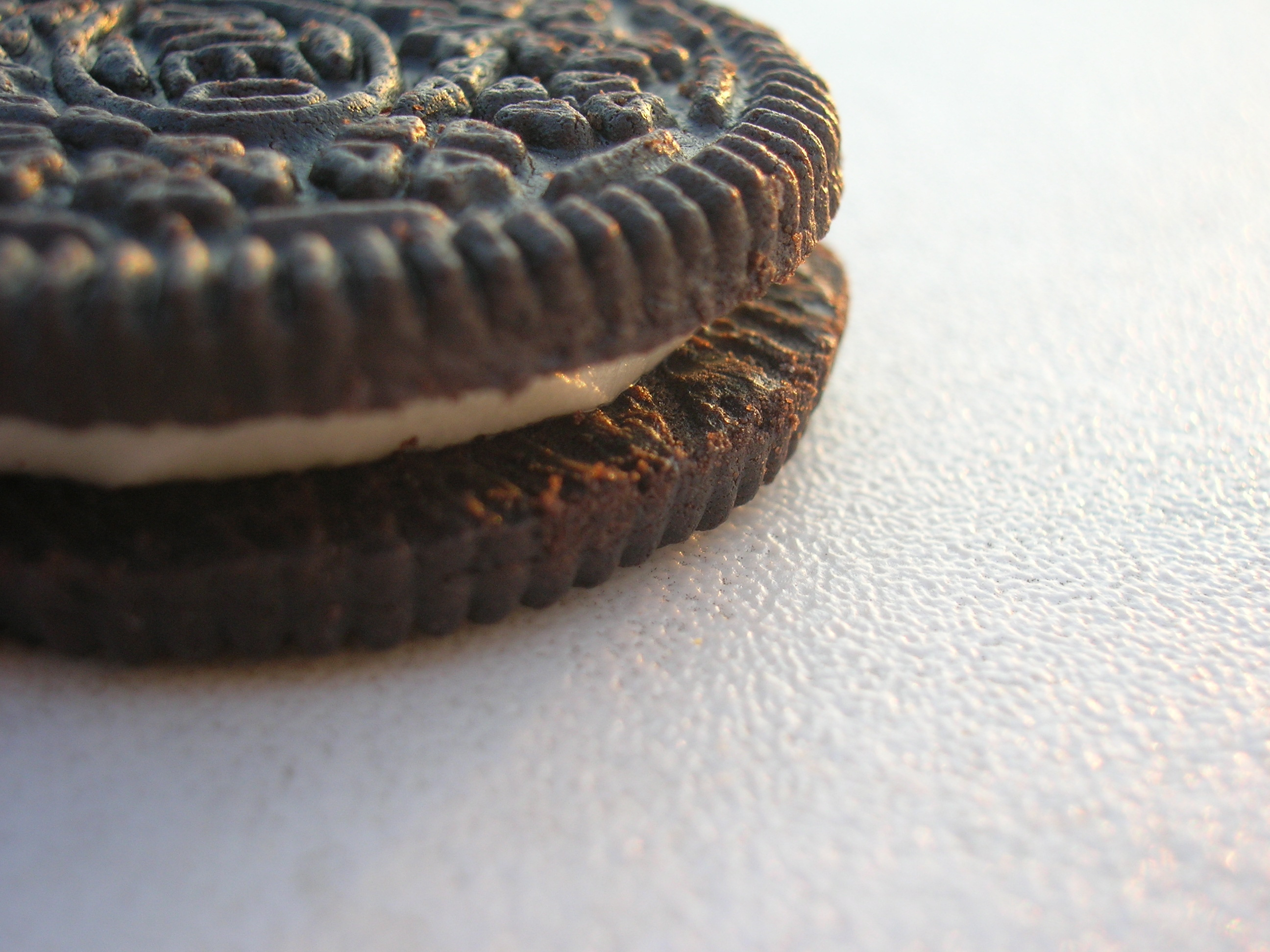 Photo of an Oreo cookie on a white table.